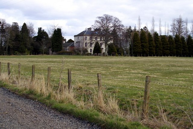 Inchmartine House Looking east from the farm track to Boyne farm.